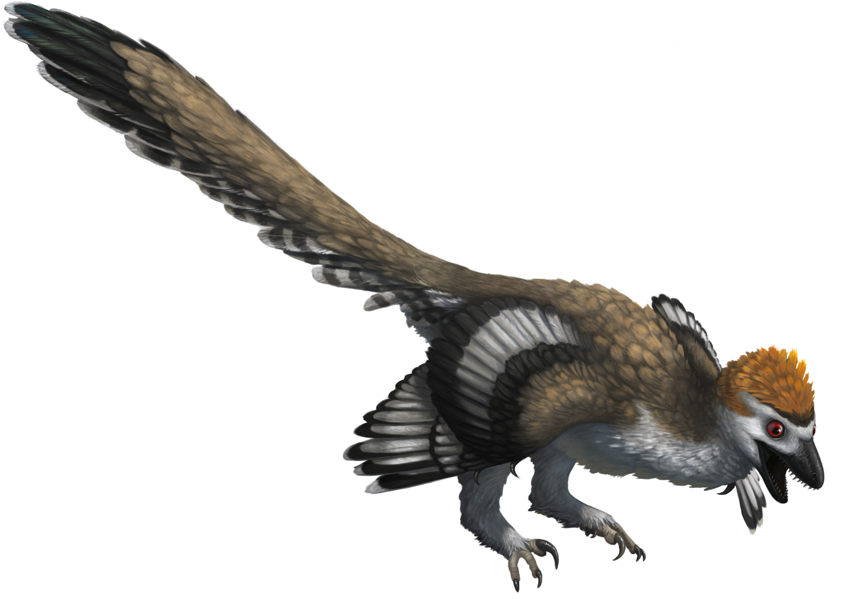 Life restoration Zhenyuanlong suni, a large winged dromaeosaur from Early Cretaceous Liaoning described in 2015, depicted using its wings in a threat display.